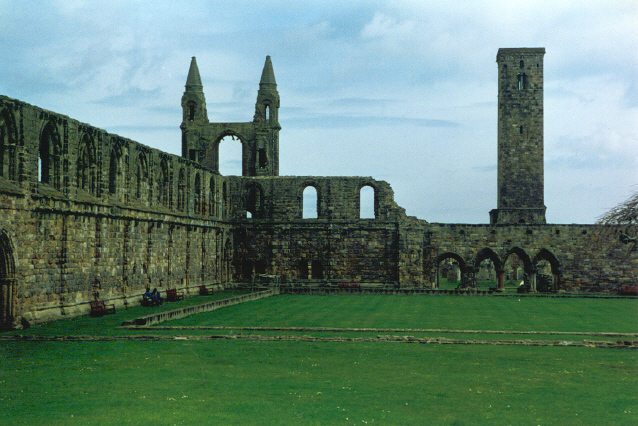 St. Andrews. More ruins - but you must agree that they are very nicely kept ruins.